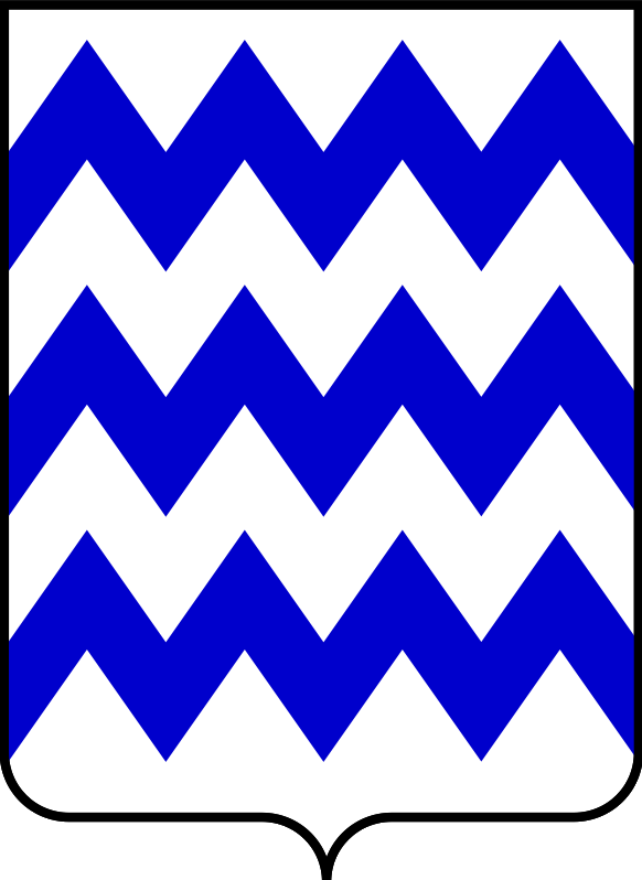 Coat-of-arms of Tocco family, Italy